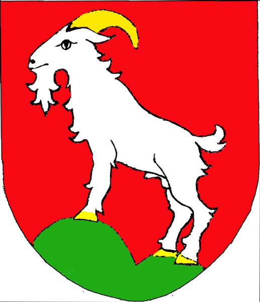 Municipal coat of arms of Velké Karlovice village, Vsetín District, Czech Republic.